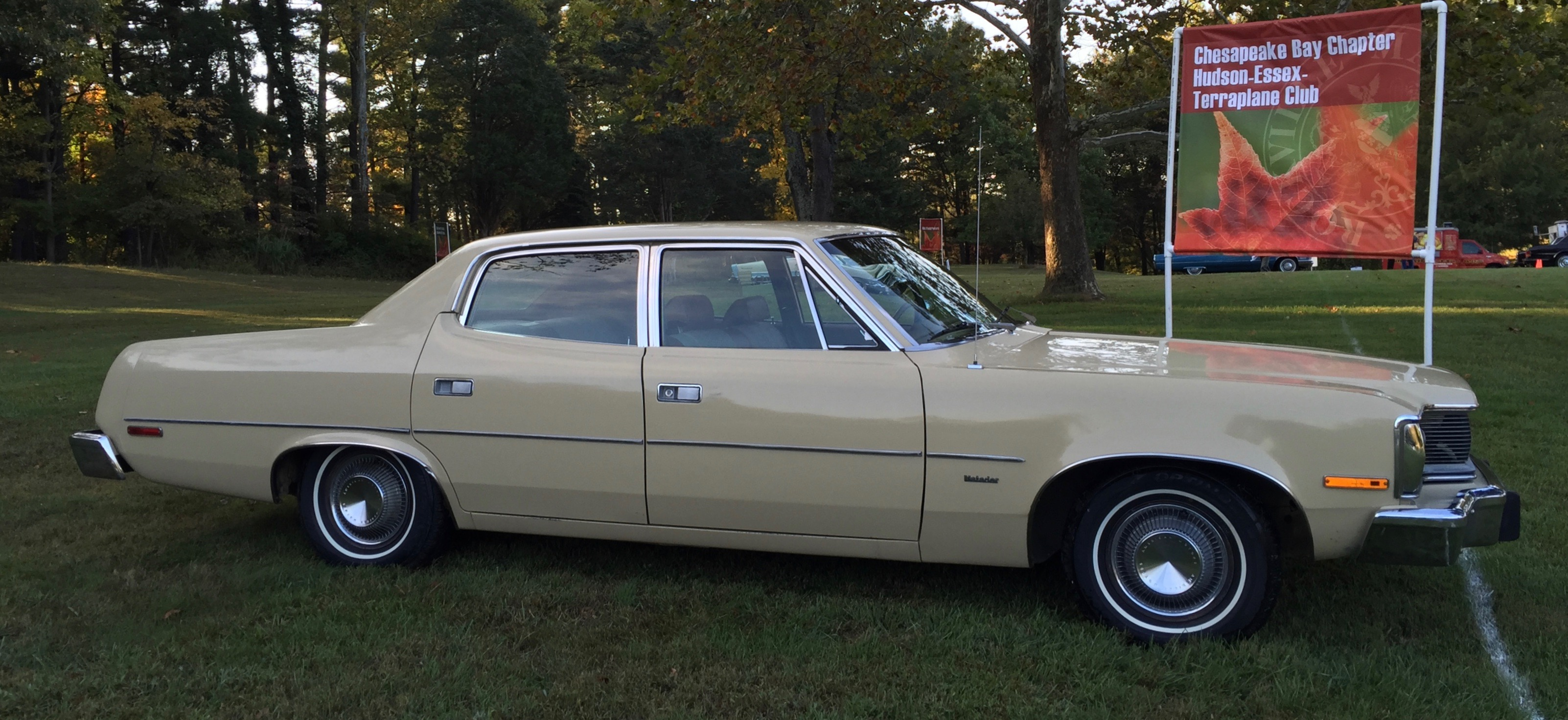 1975 AMC Matador four-door sedan, built in Kenosha, Wisconsin, by American Motors Corporation. This is the standard base model, while the upmarket version in 1975 was the "Brougham". This is a full-sized six adult passenger capacity car on 118-inch (2,997 mm) wheelbase with an overall length of 216 inches (5,486 mm). It features the original factory finish (Fawn Beige, paint code: E6) and has the optional "Custom" wheel covers. Note: FR78 x 14 steel radial tires were standard on sedans, with optional whitewalls and upsize HR78 x 14 radials (standard on station wagons). Traditional bias-ply tires were available as a "delete" option. Picture taken during the 2015 Rockville Antique and Classic Car Show in Maryland.